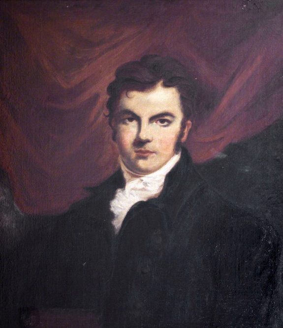 Self portrat oil on panel 74.5 x 62.5 cm